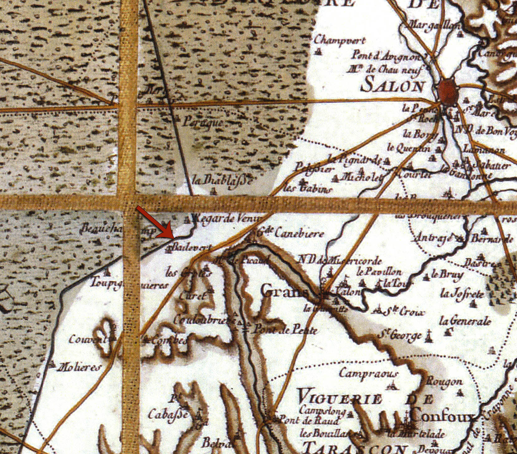 Cassini's map with the town of Grans, Salon and The Bayle-Vert